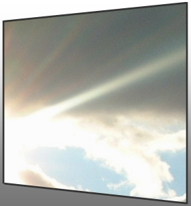 This photo is photographing by oneself.